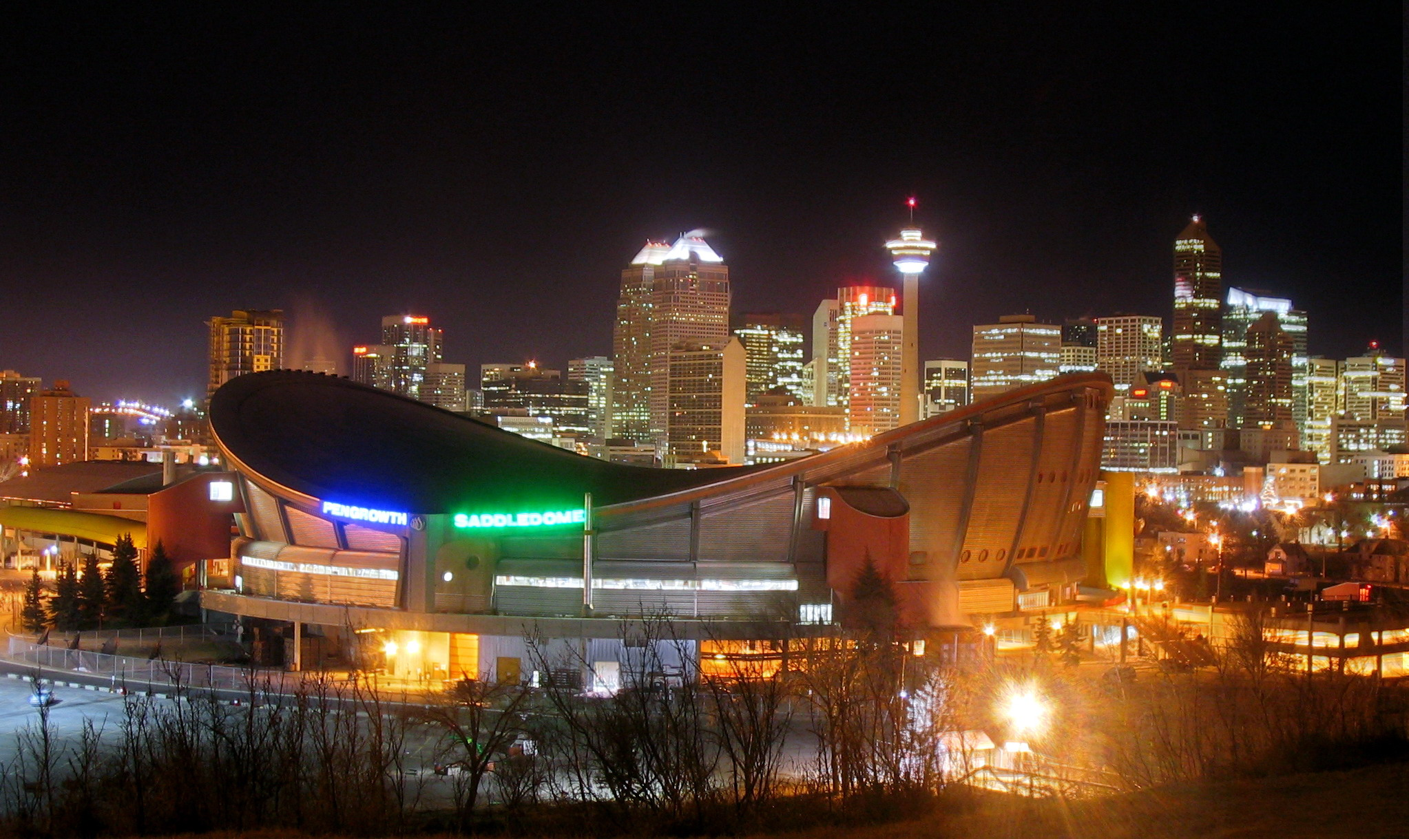 Calgary skyline and Pengrowth Saddledome at night